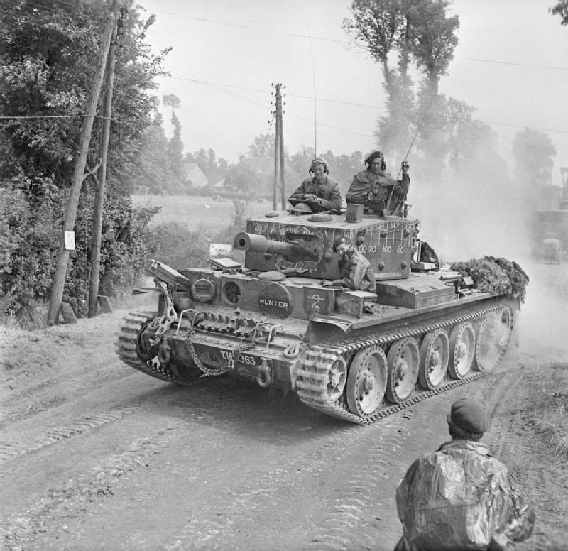 Centaur IV tank of 'H' Troop, 2nd Battery, Royal Marine Armoured Support Group, 13 June 1944. Centaur IV tank with 95mm howitzer of 'H' Troop, 2nd Battery, Royal Marine Armoured Support Group, 13 June 1944.